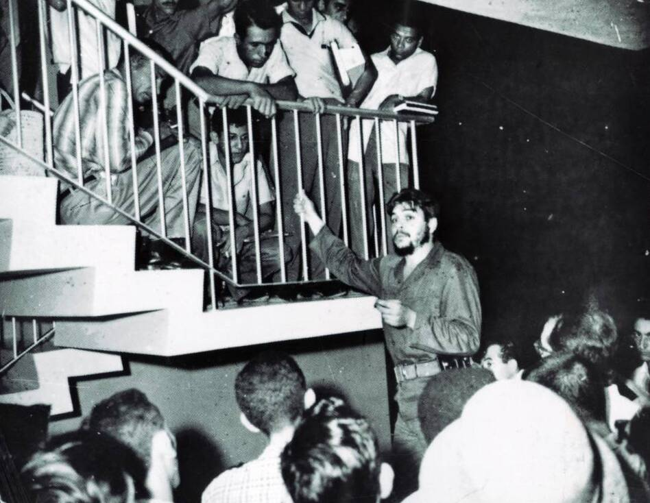 Che Guevara at the Universidad de Oriente in 1961, located in Santiago de Cuba, Cuba.